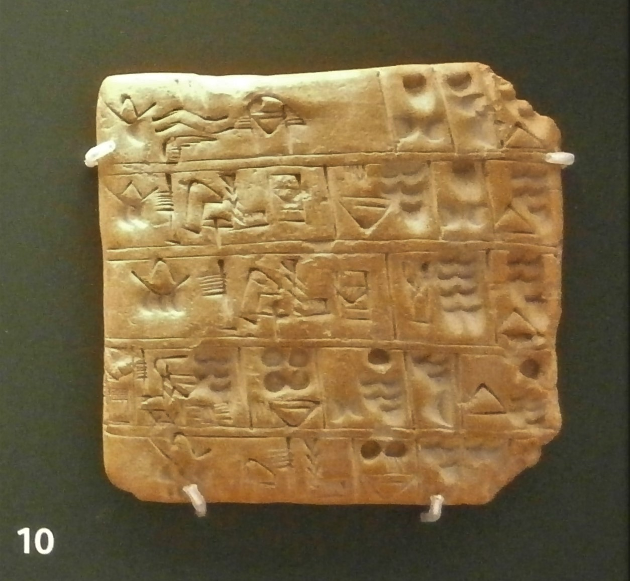 Tablet with daily rations, over 5 days. Jemdet Nasr period, c. 3000-2900 BC. Probably from Jemdet-Nasr. ME 116730.